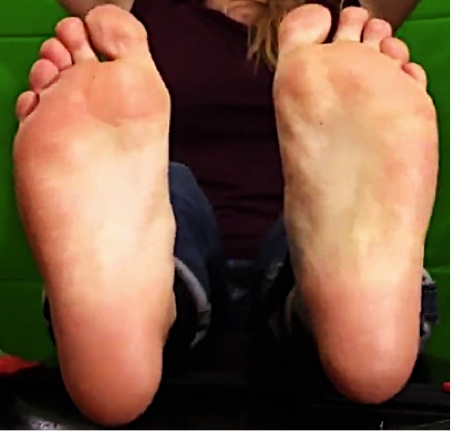 The soles of a woman with flat feet